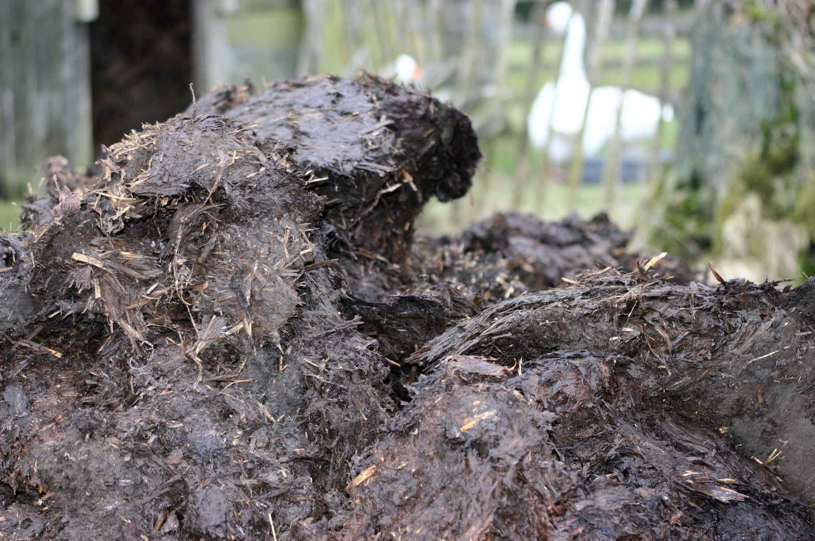 organic matter